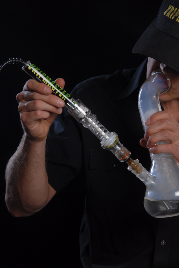 User holds a VripTech Glass Vaporization Heat Wand. The unit provides a hih concentration vapor for smoking cannabis products.